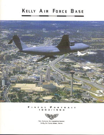 KAFB Fiscal Portrait 1993-4